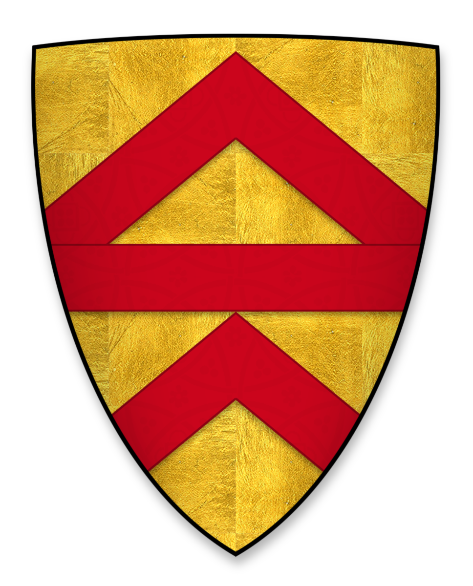 Coat of arms of Robert Fitzwalter, Lord of Dunmow Castle